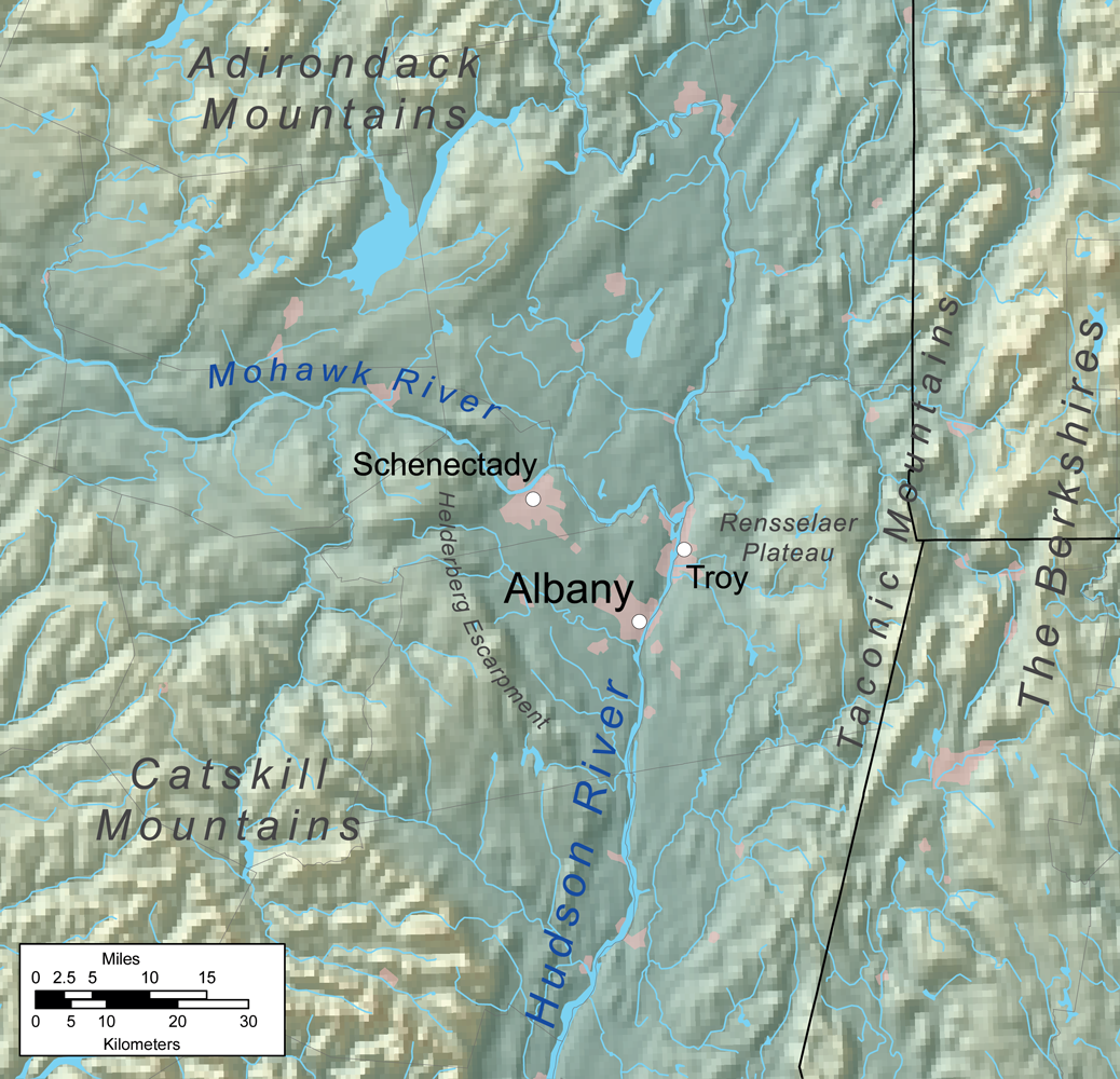 Map showing the physical geography in the area around Albany, New York.